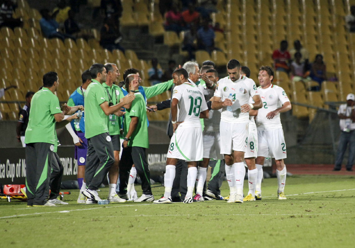 The Greens receive encouragement for their CAN clash against Cote d'Ivoire.